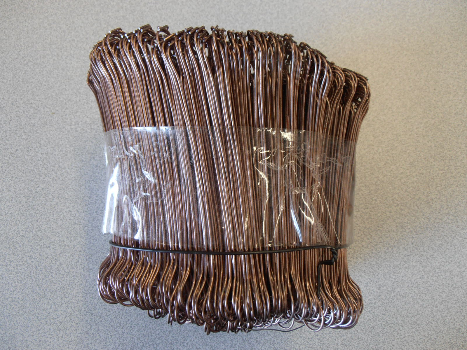 Rebar tie wire